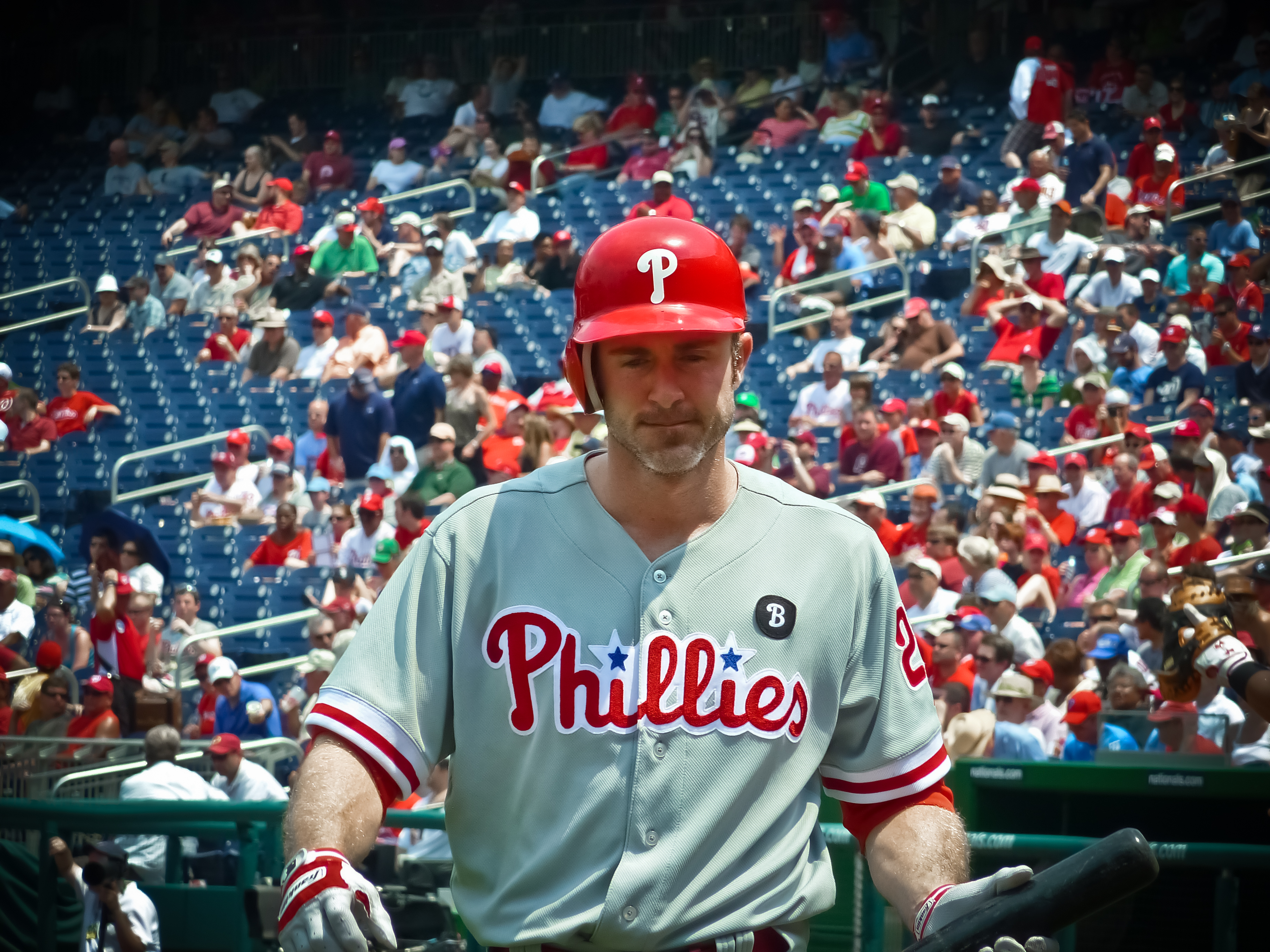 Chase Utley in 2011.